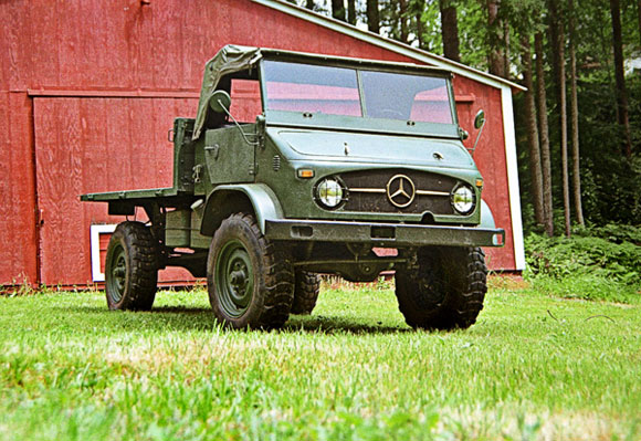 1955 Mercedes Unimog Serial Number 4